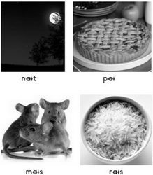 Discovering page in DLR for ‘ɑi’/‘ɑi’